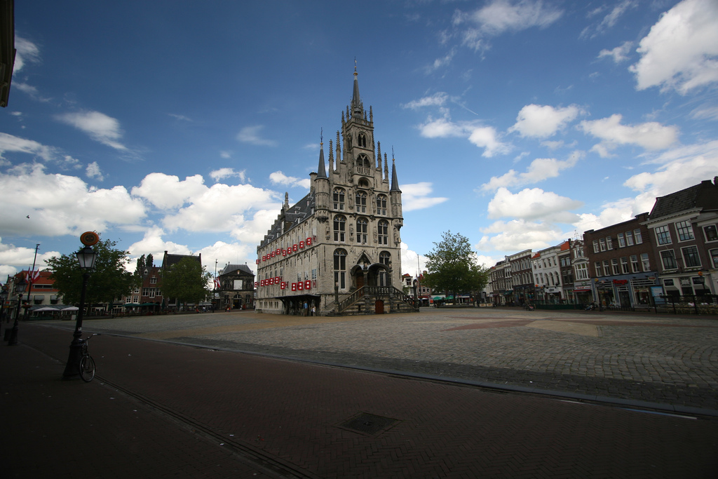 City hall Gouda